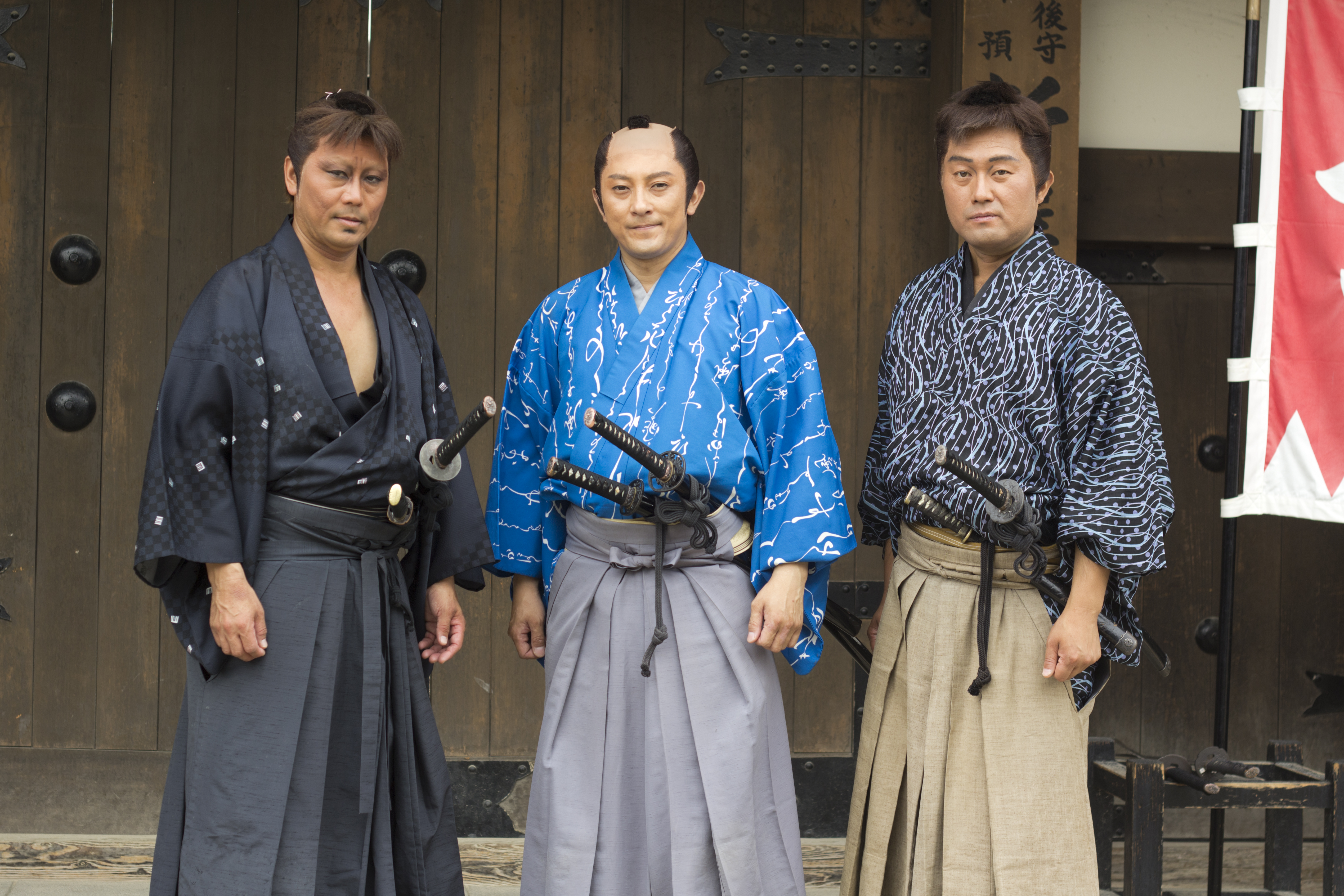 Three actors at the Eigamura theme park / film set in Kyoto. The one in the middle is the good guy - the employed samurai - the other two are dastardly ronin.